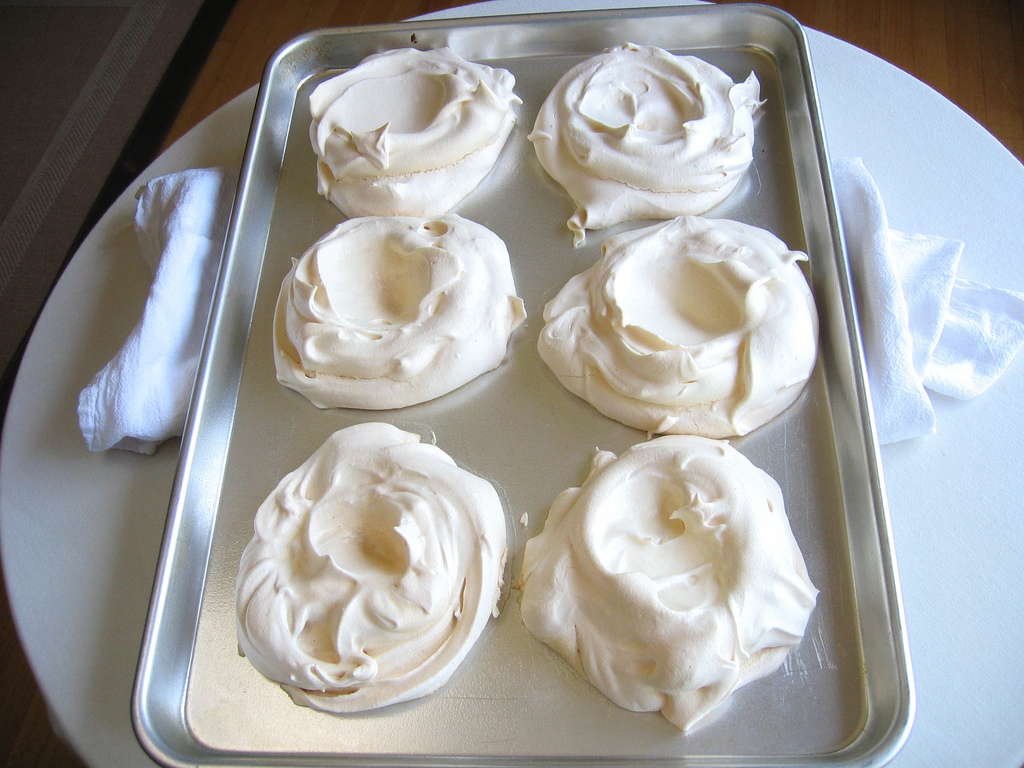 Wisconsin Schaum Tortes on tray.